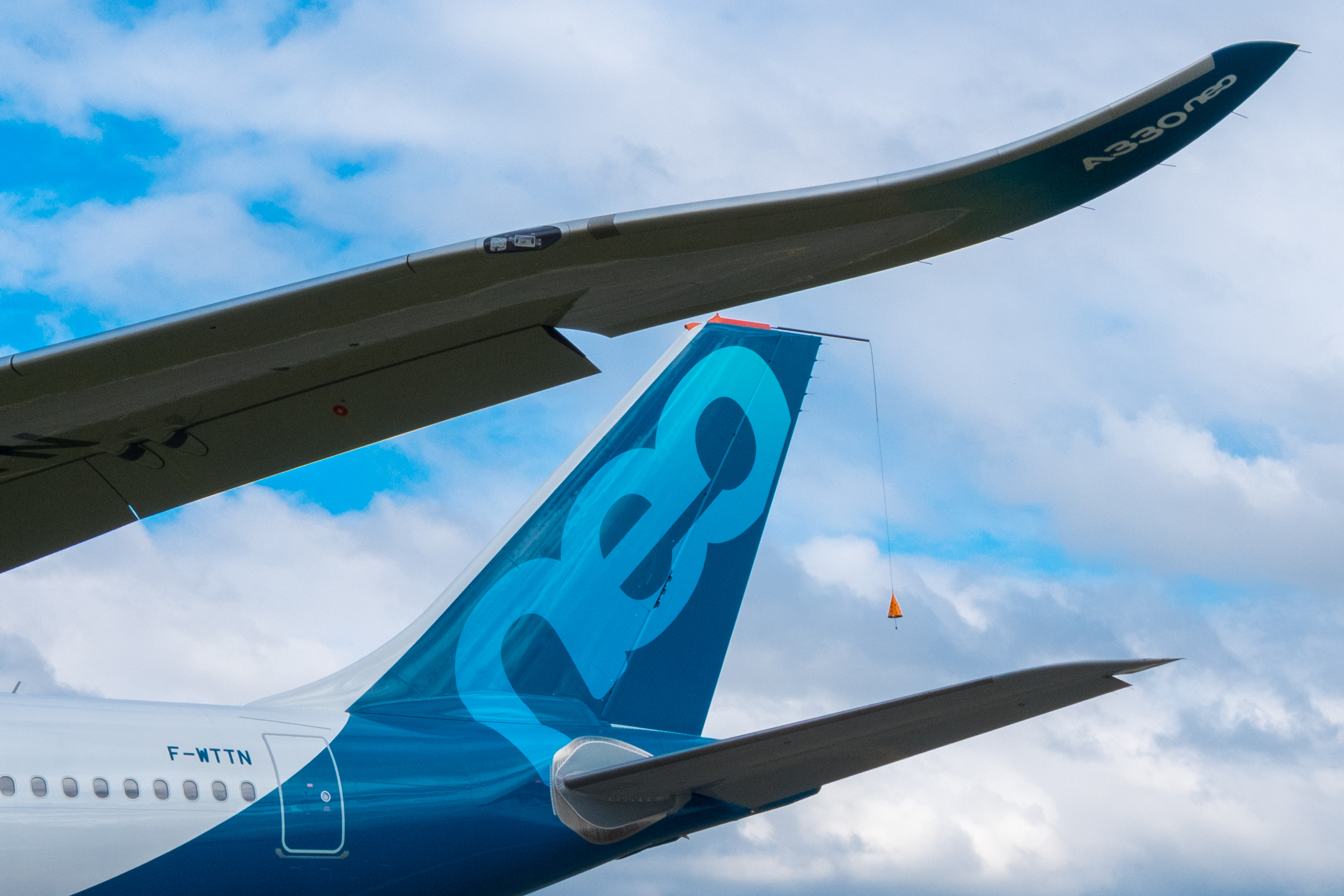 Airbus A330neo First Flight, new sharklets. 19 October 2017, Toulouse, France.